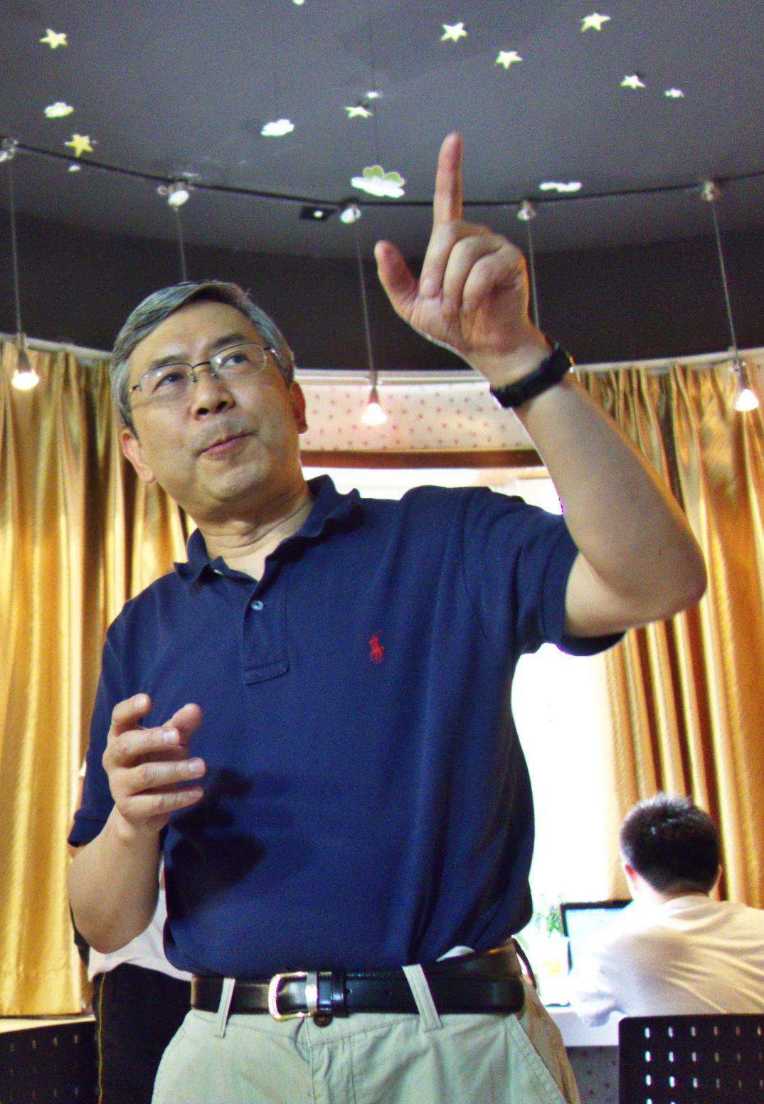 Zheng Nanning, President of Xi'an Jiaotong University, visits Bingo Cafe which is run by students. Shot by myself.